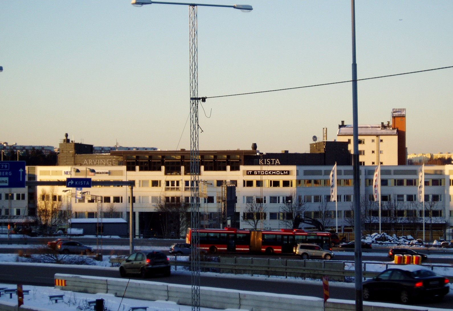 Ärvinge, part of Kista, Sweden